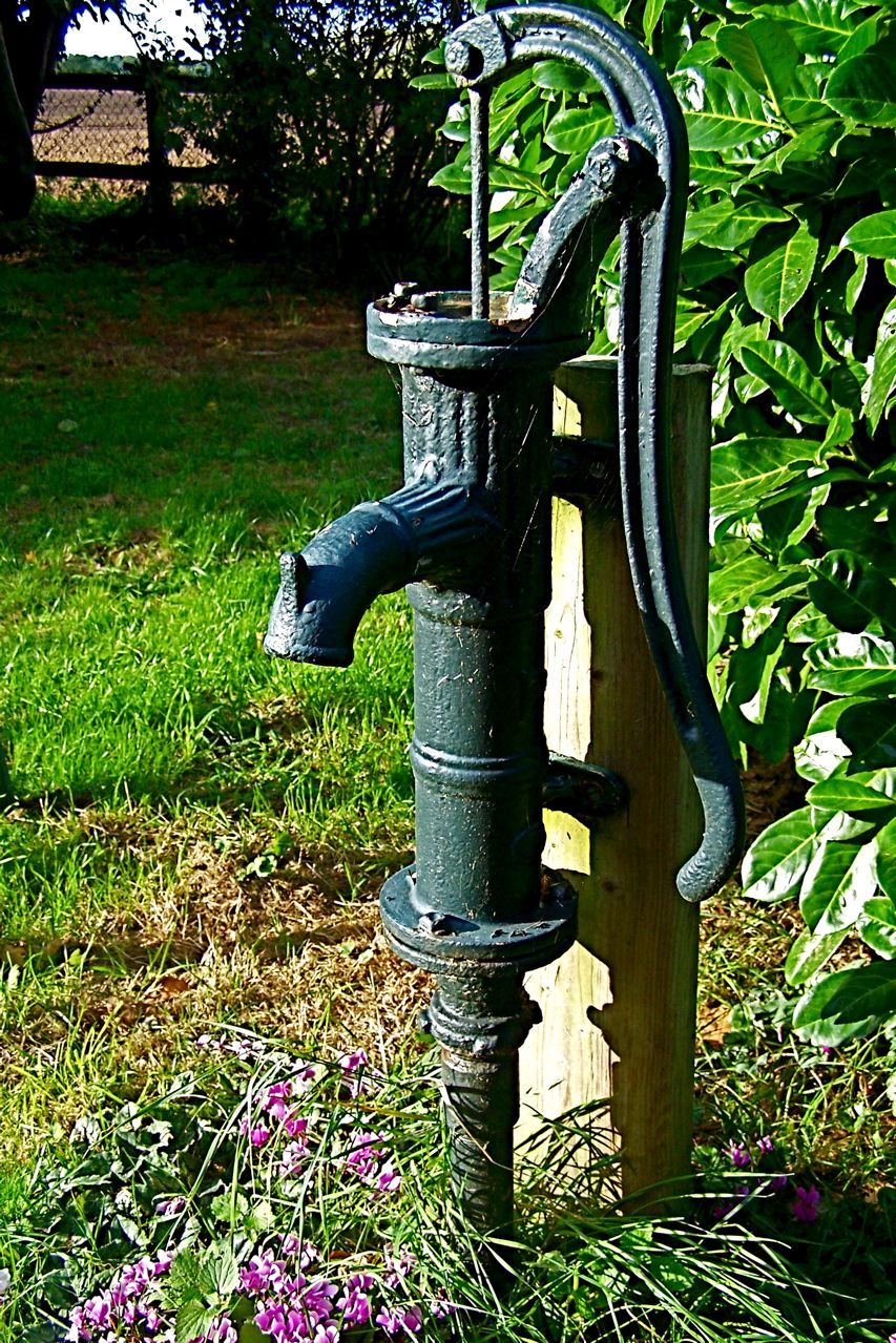 An old hand pump in a garden, Norfolk, UK